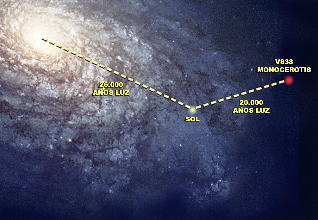 Location of V838 Mon in the Milky Way Galaxy.